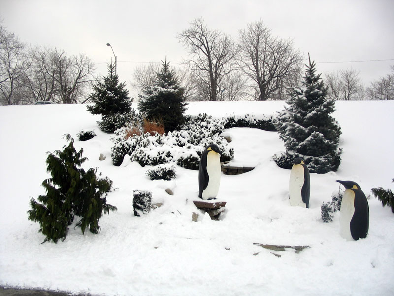 Sculptures of penguins on the Riverfront in Windsor